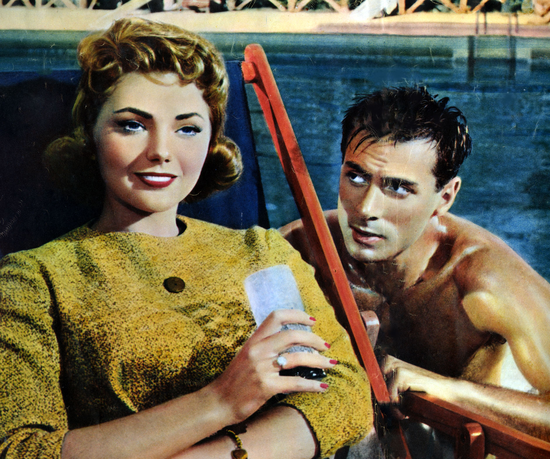 Stage photo of Sylva Koscina and Antonio Cifariello (1930-1968) from the 1958 film Giovani mariti (Young Husbands) of Giovani Mariti, directed by Mauro Bolognini